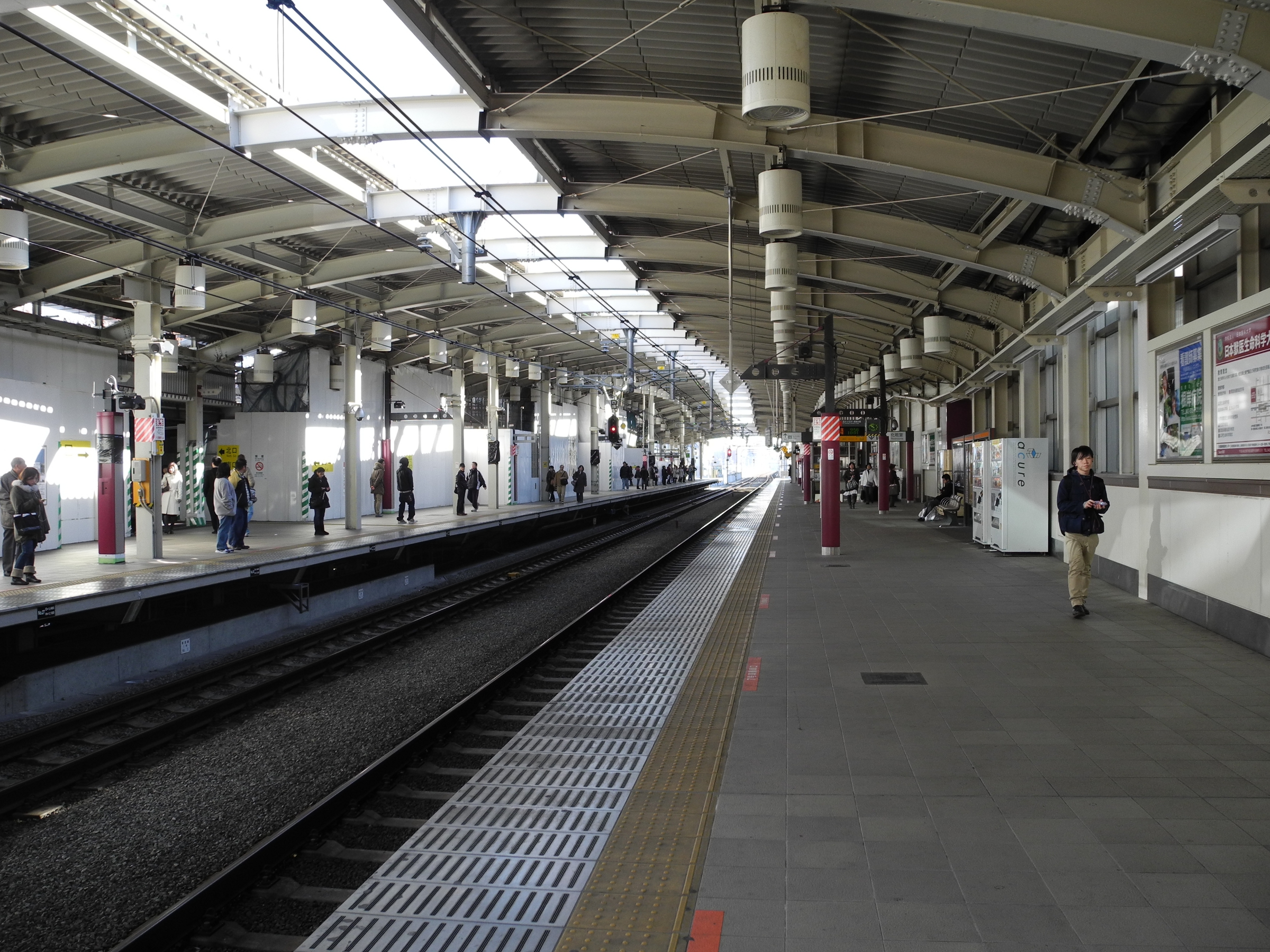 The platform at Musashi-Sakai Station. Musashino, West Tokyo, Japan.